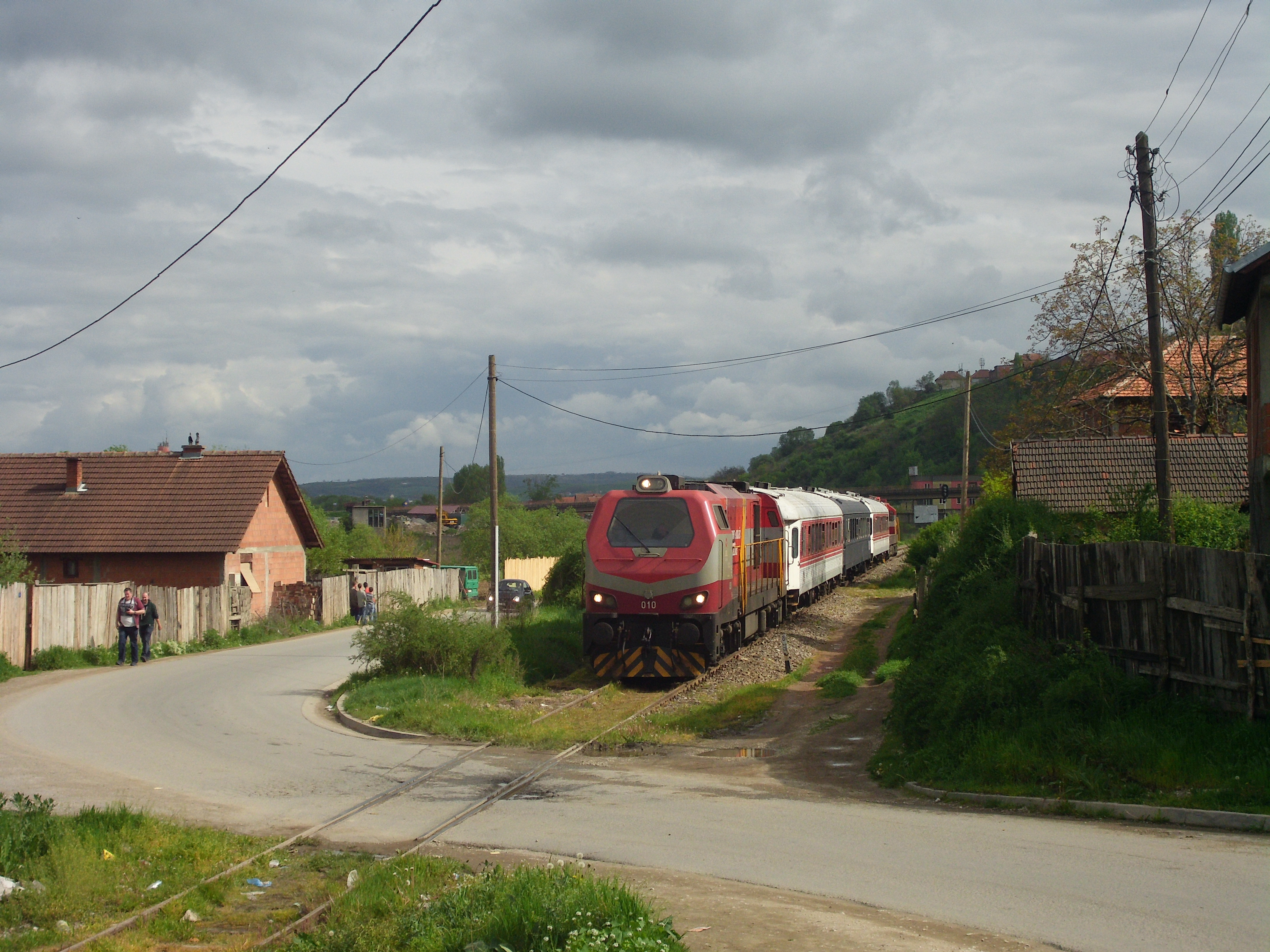 A tourist train from Fushë Kosovë approaching a southern suburb of Mitrovica in Kosovo.